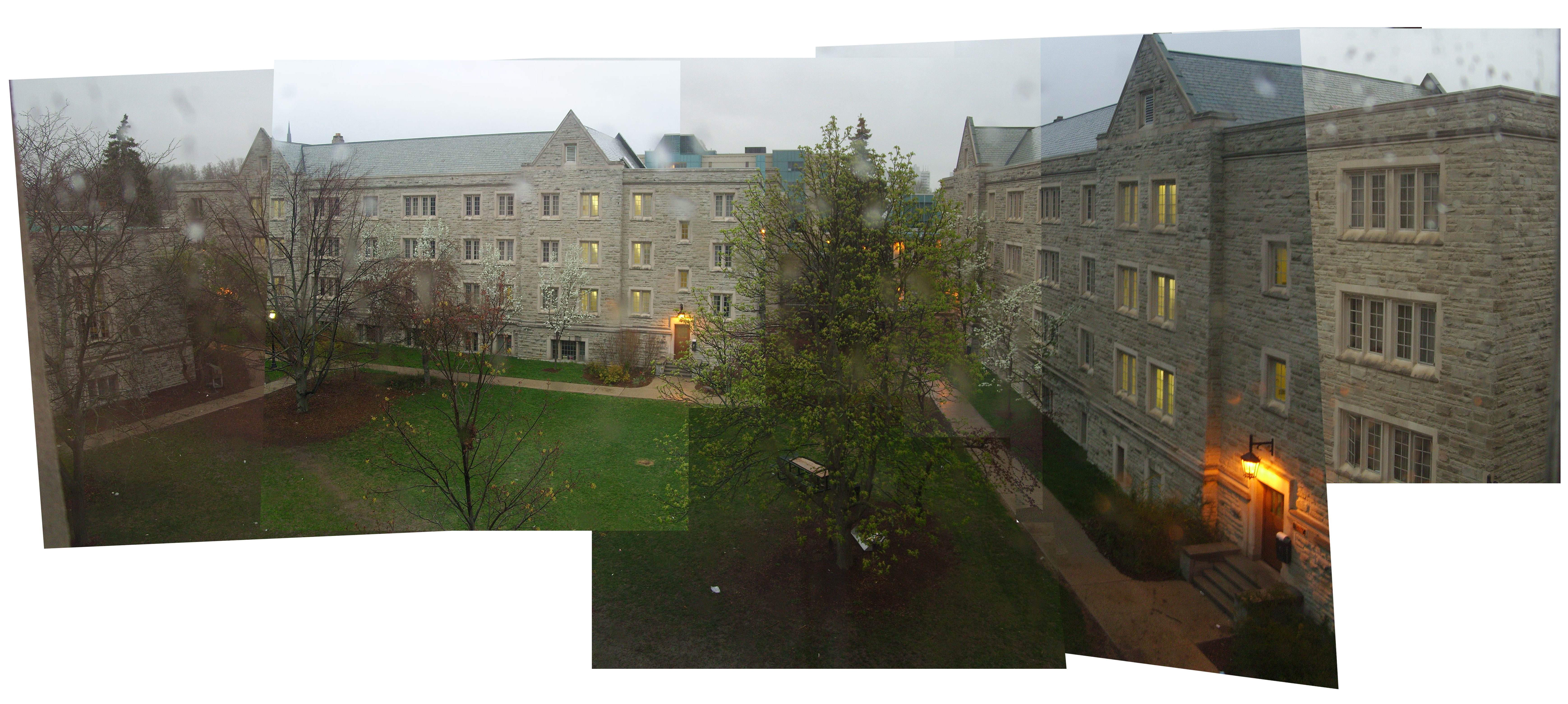 Panorama from inside of the Sydenham Quad